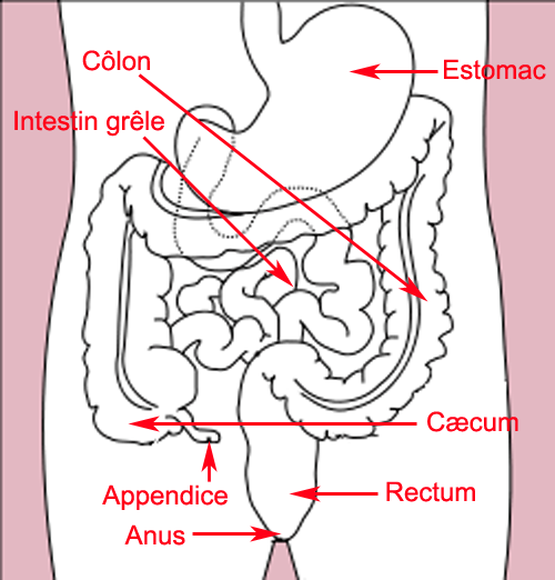 Note: See the version numbered to create or enhance one translation. If you can, help make this description accessible to all by translating it into other languages – thanks!